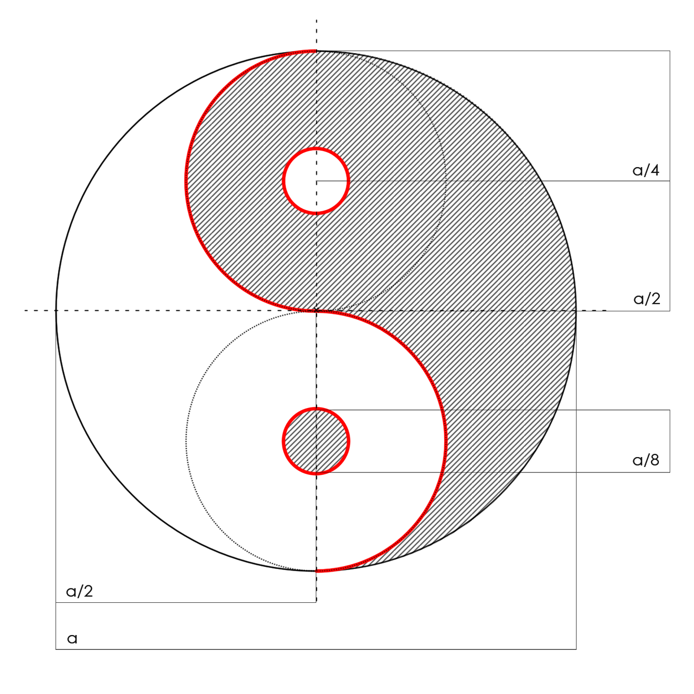 Yin and Yang - correct geometry